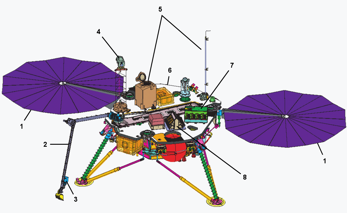 Labelled illustration of the Phoenix Mars lander. Solar array Robotic arm Robotic arm camera Surface stereoscopic imager Meteorological station Mars descent imager (below deck) Microscopy, electrochemistry and conductivity analyzer Thermal and evolved-gas analyzer